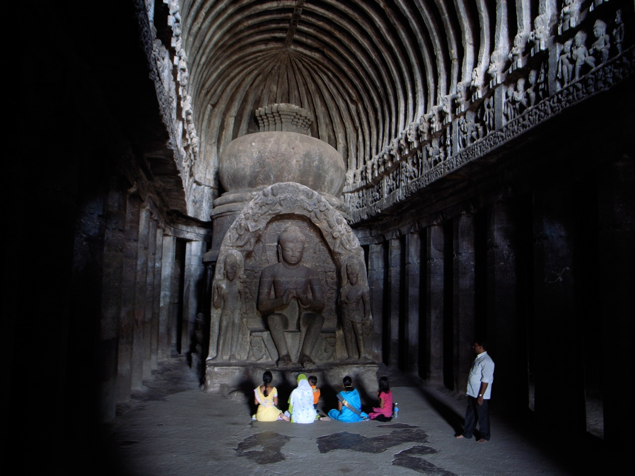 People worshipping at cave 10 in Ellora Caves, India. The Buddha statue is 3.3m high and in the teaching posture( vyakhyana mudra).